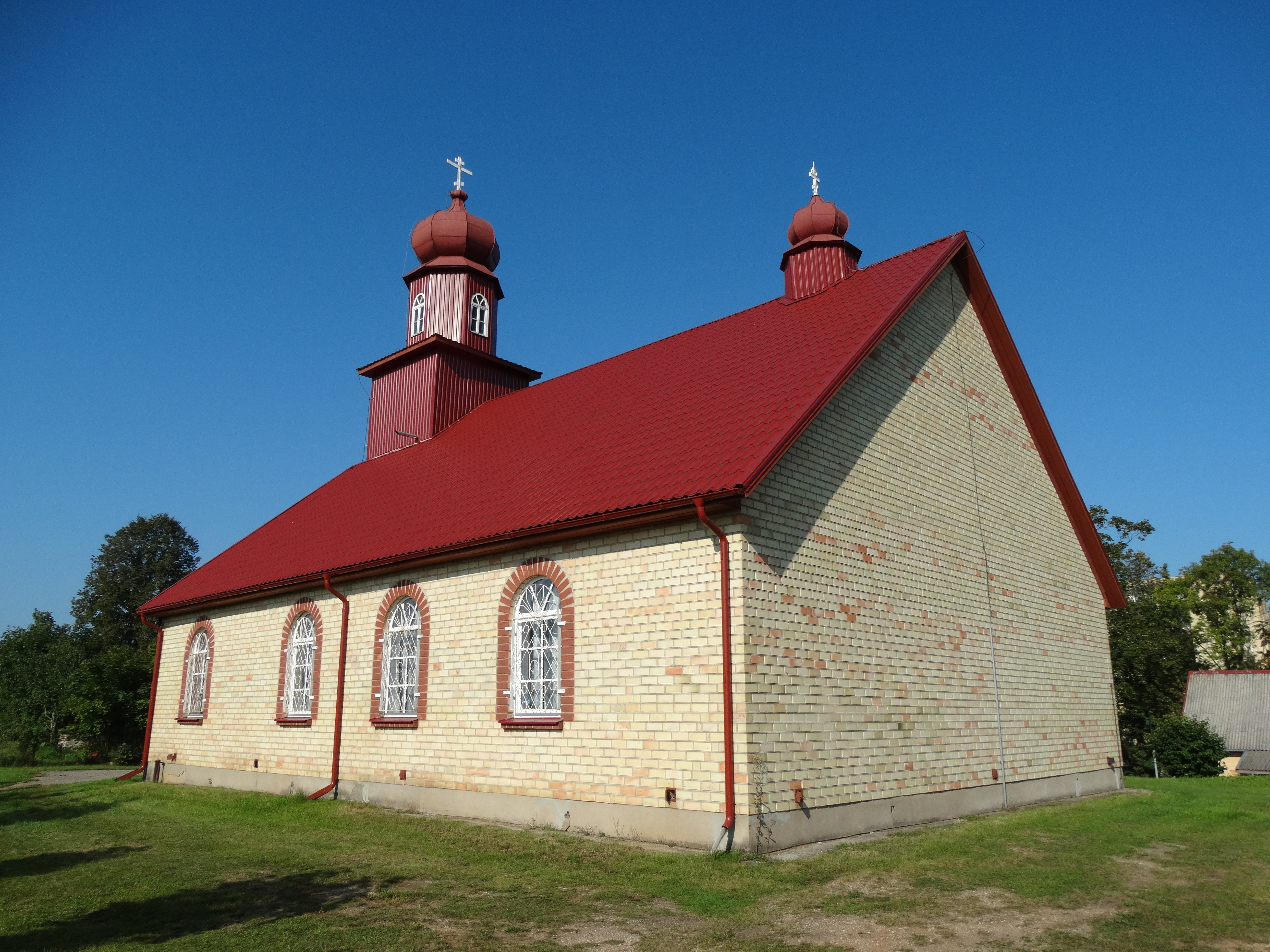 Old Believers Church of the Intercession of the Holy Virgin, Zarasai, Lithuania